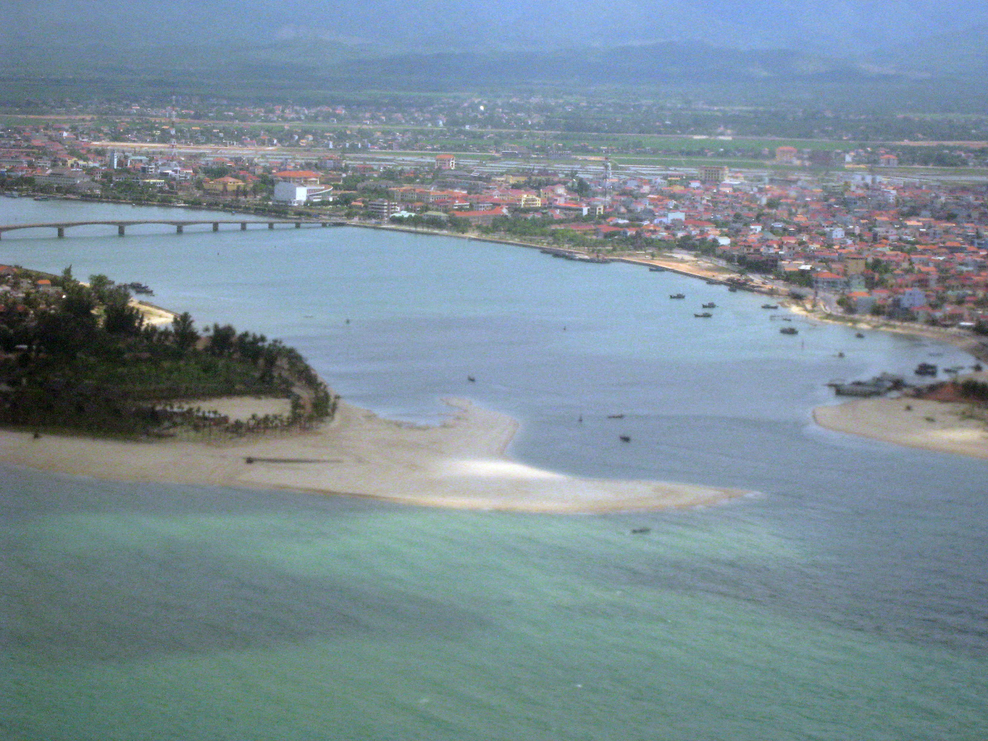 Dong Hoi, Quang Binh, Vietnam